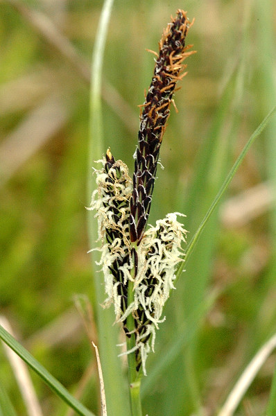 Picture taken in Commanster, Belgian High Ardennes . Species: Carex panicea